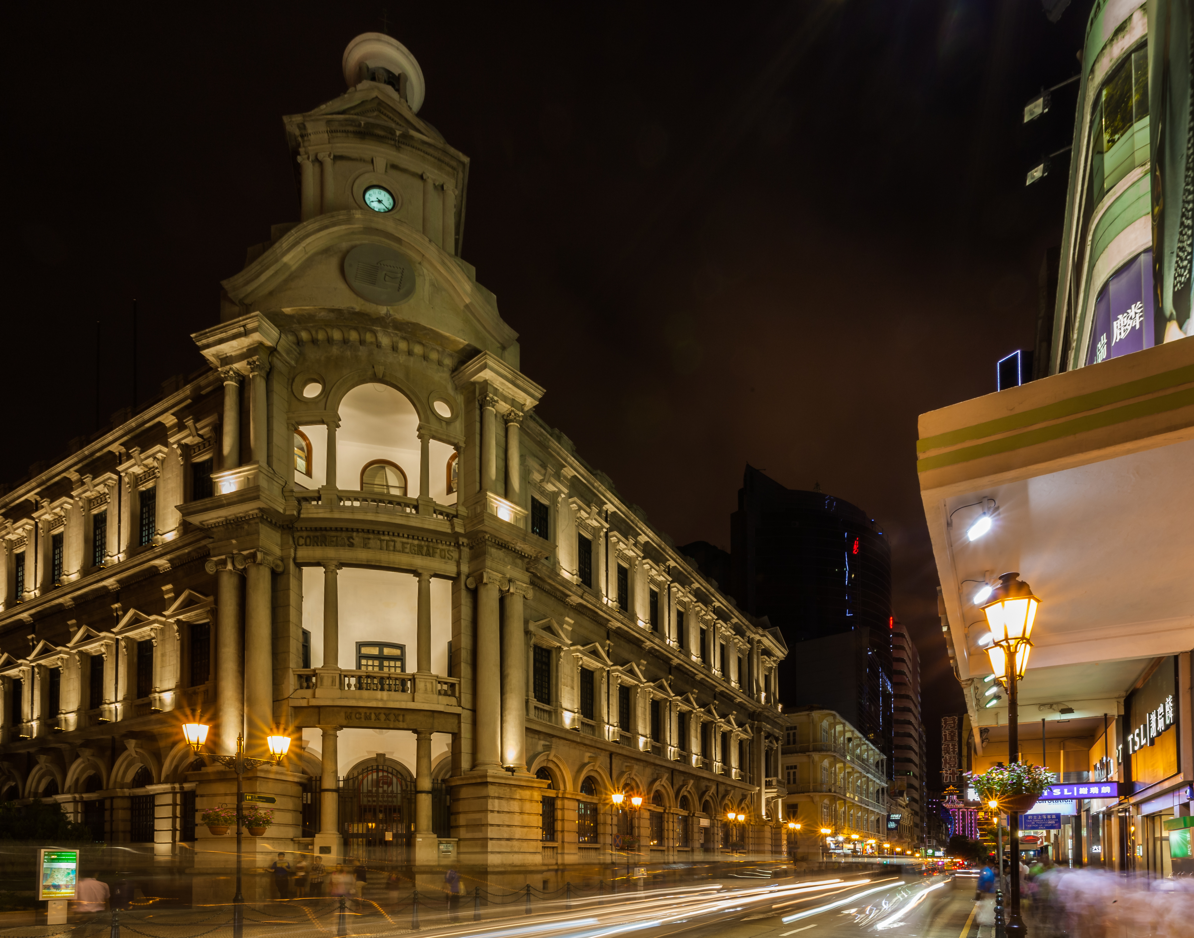 Post Office building, Macau